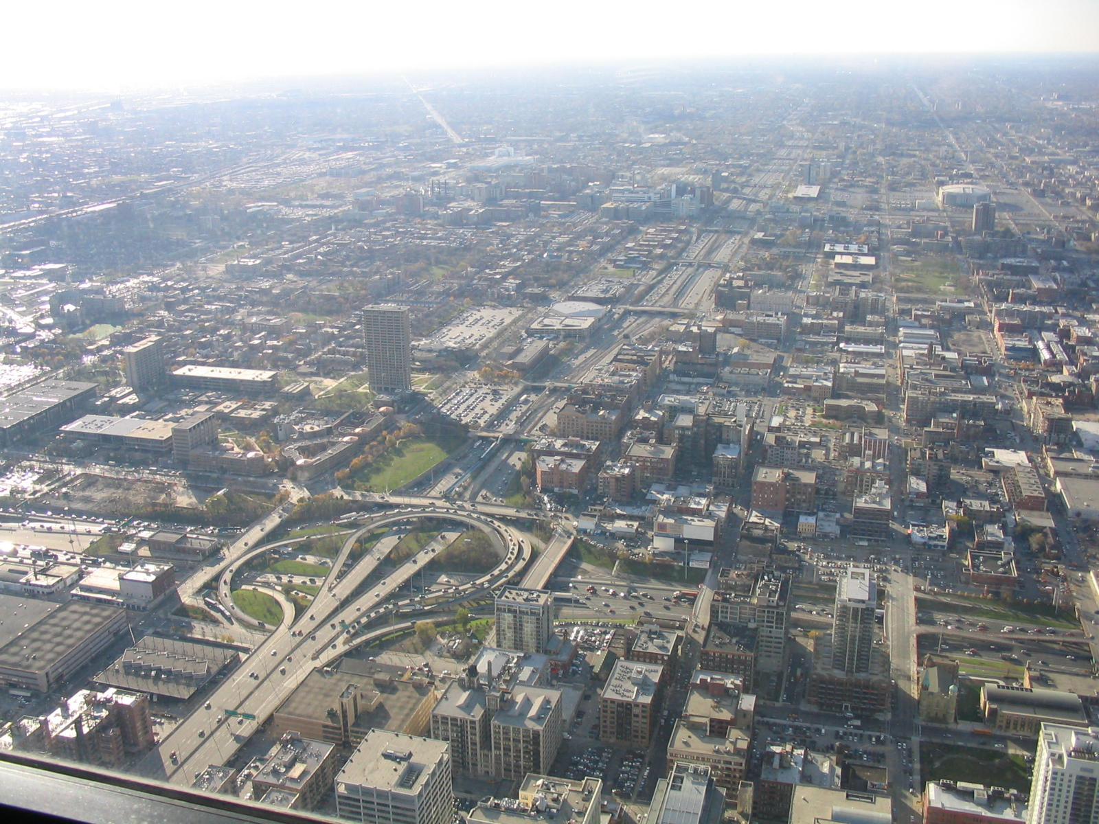 Description: View looking west from the Sears Tower in Chicago, Illinois, featuring the circle interchange: the intersection of the Eisenhower Expressway (I-290) and the Kennedy/Dan Ryan Expressways (I-90/94). Source: Dori